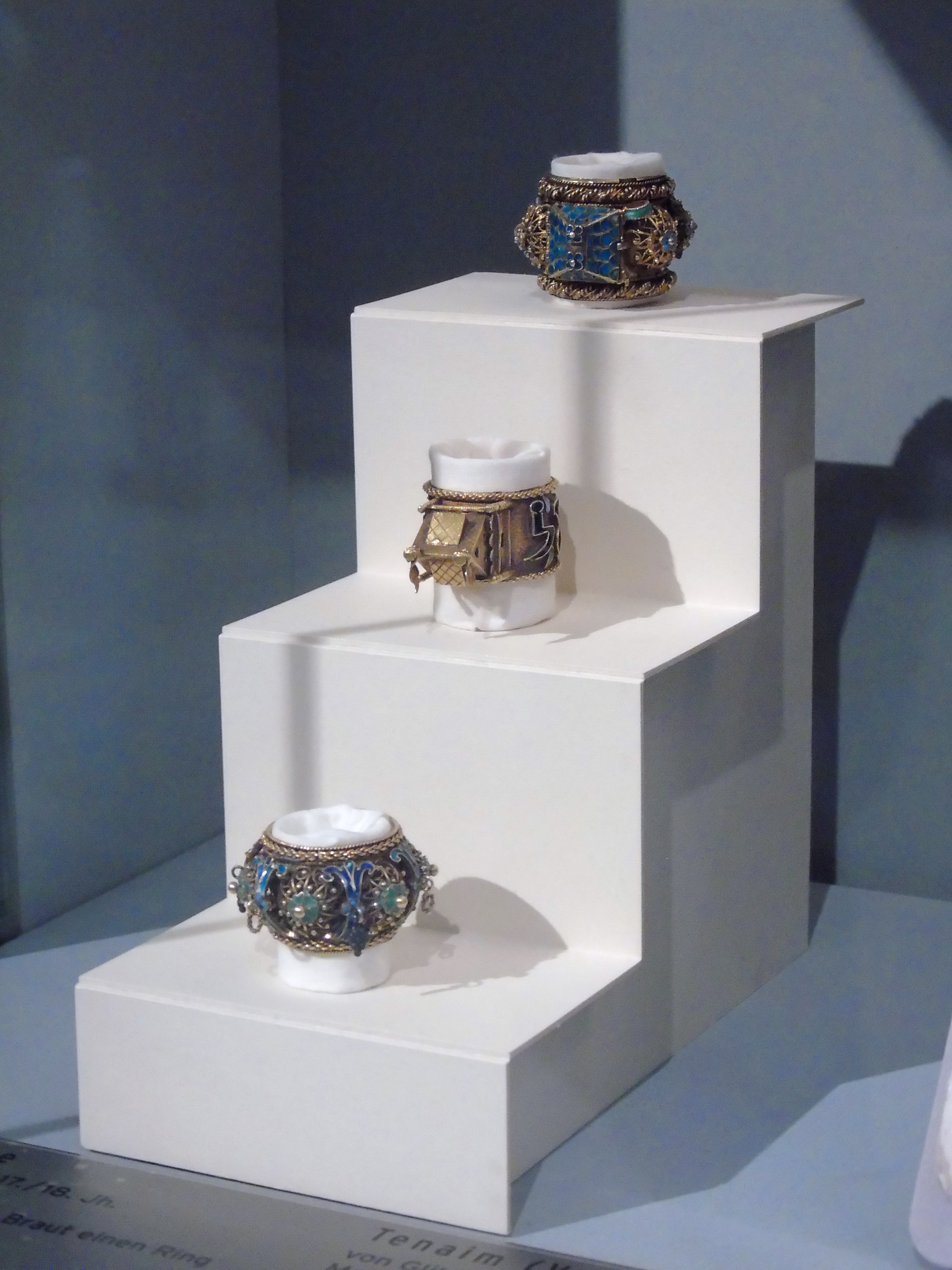 Jewish wedding rings, 17/18th century